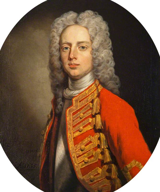 Portrait of a man said to be Sir Peter Halkett, 2nd Baronet of Pitfirrane